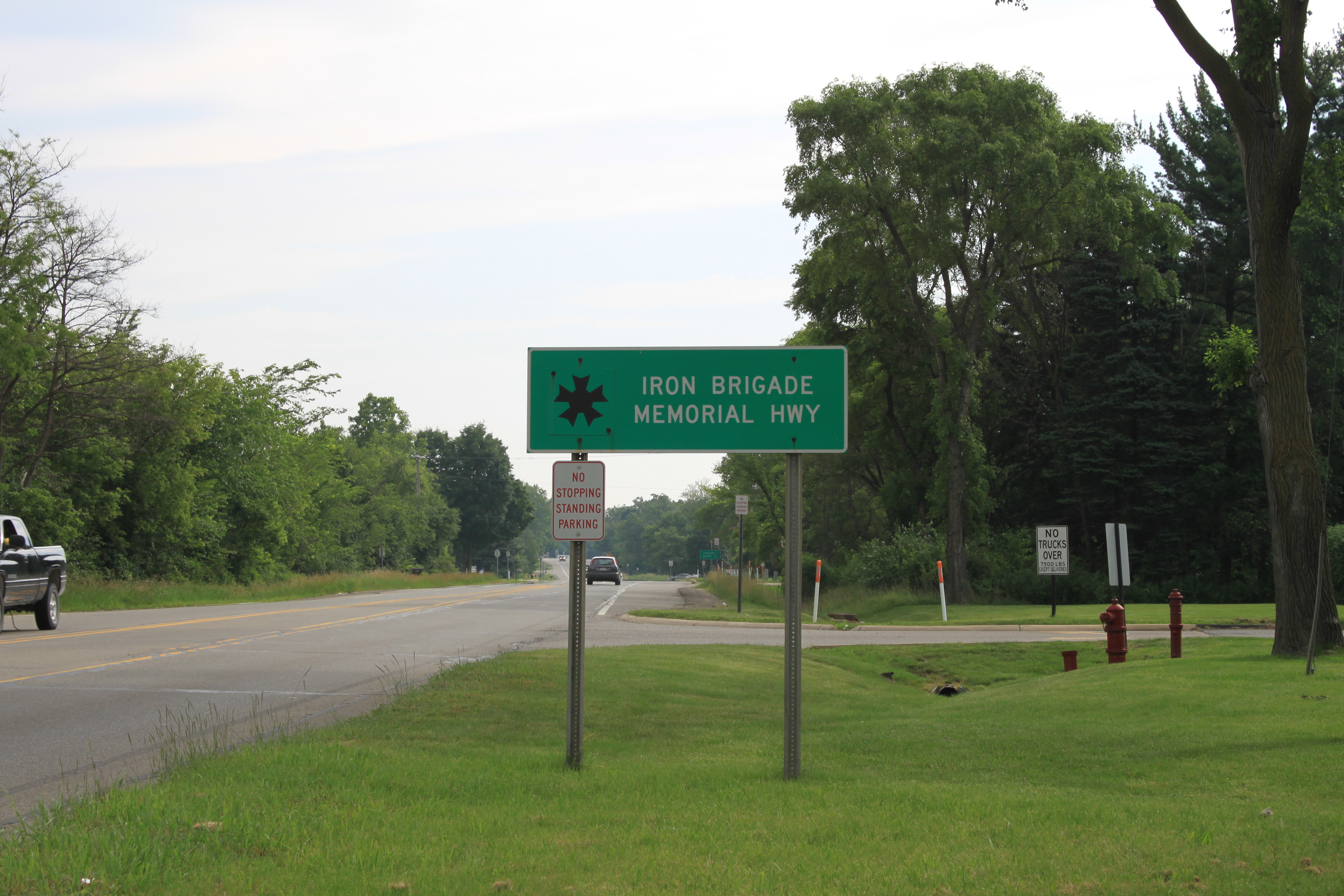 Iron Brigade Memorial Highway sign, Pittsfield Township, Michigan, east of Carpenter Road